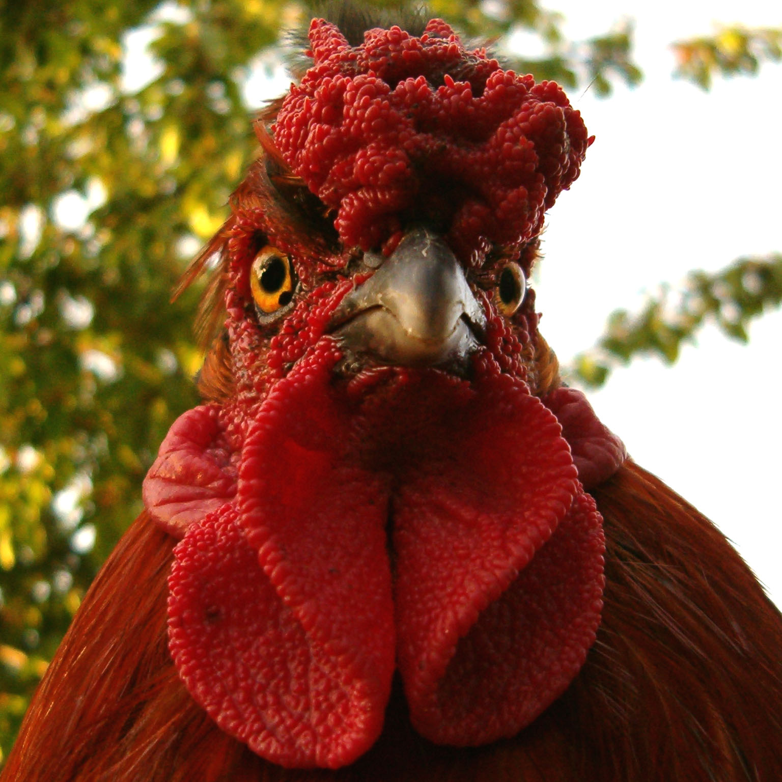 rooster